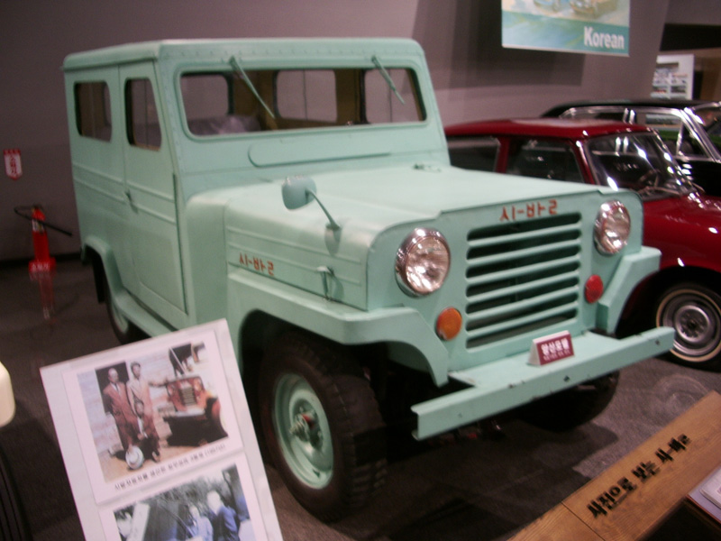 The humble beginnings of South Korea's automotive industry are showcased here. Three brothers, in 1955, decided to build automobiles, founding Gukje Motors. They used the plentiful leftover American Jeep chassis from the war, equipped them with 2.2-liter imitation American engines and rebuilt 3-speed American transmissions, and added a hand-built body. The result was the Shibal (beginning#. Initial sales were slow, but after receiving an industrial award from President Syngman Rhee, sales took off. Sales remained strong until 1962, when the Saenara #a licensed copy of Datsun Bluebird) went into production; Gukje Motors folded in 1964 without ever building a successor model. Thirsty and expensive, but rugged and well-suited to the primitive South Korean roads of the day, the Shibal often served as a taxicab. So much so, that most people who do remember the Shibal usually refer to it as the Shibal Taxi. Although over 3,000 were built, no Shibal are in existence today. This is a replica, representing a later, mass-produced version, built by an unknown museum.